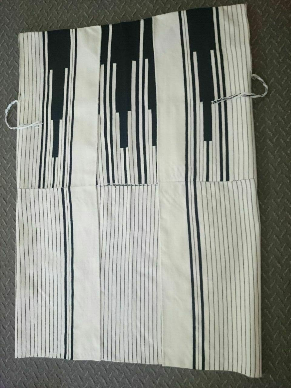 Chugha